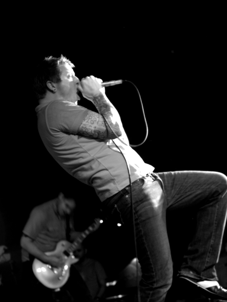 Alex Varkatzas, vocalist of Atreyu, performing live.